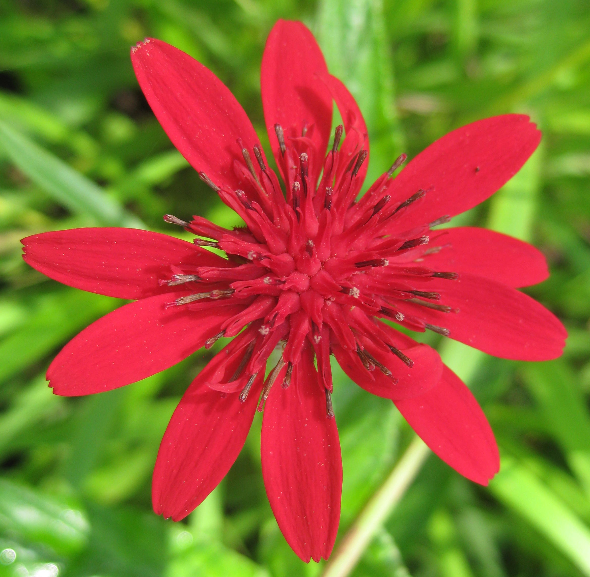 Erythrocephalum zambesianum flower.